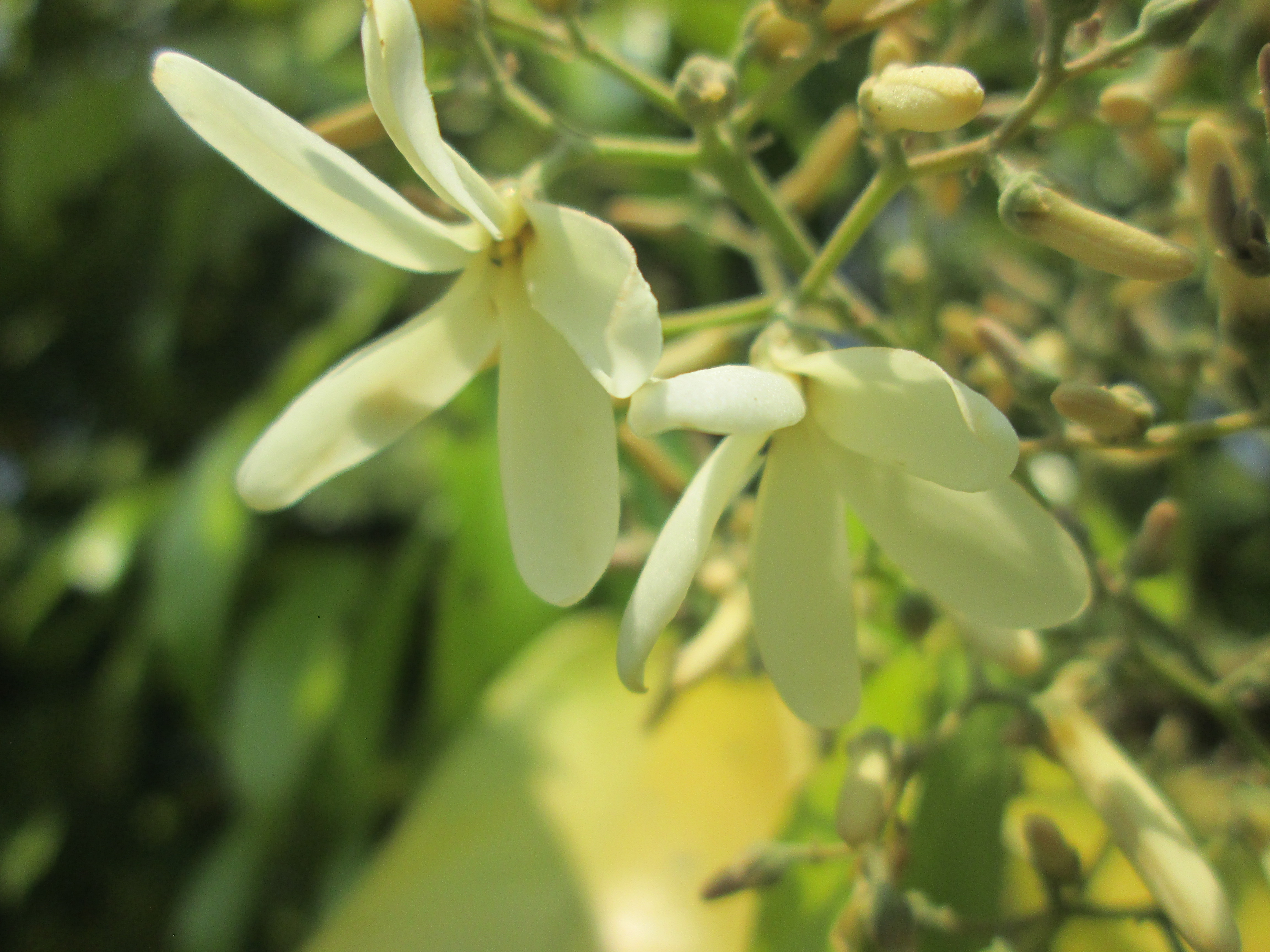 Vatica pauciflora flowers